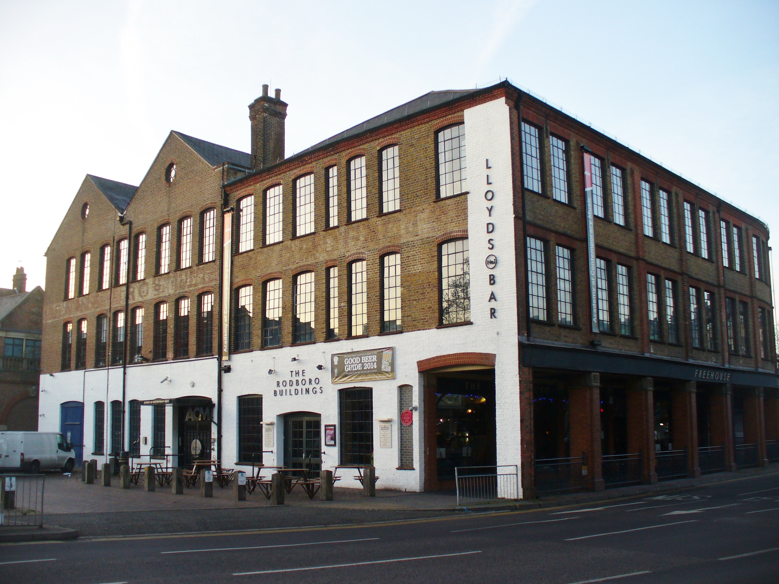 Guildford - Rodboro Buildings